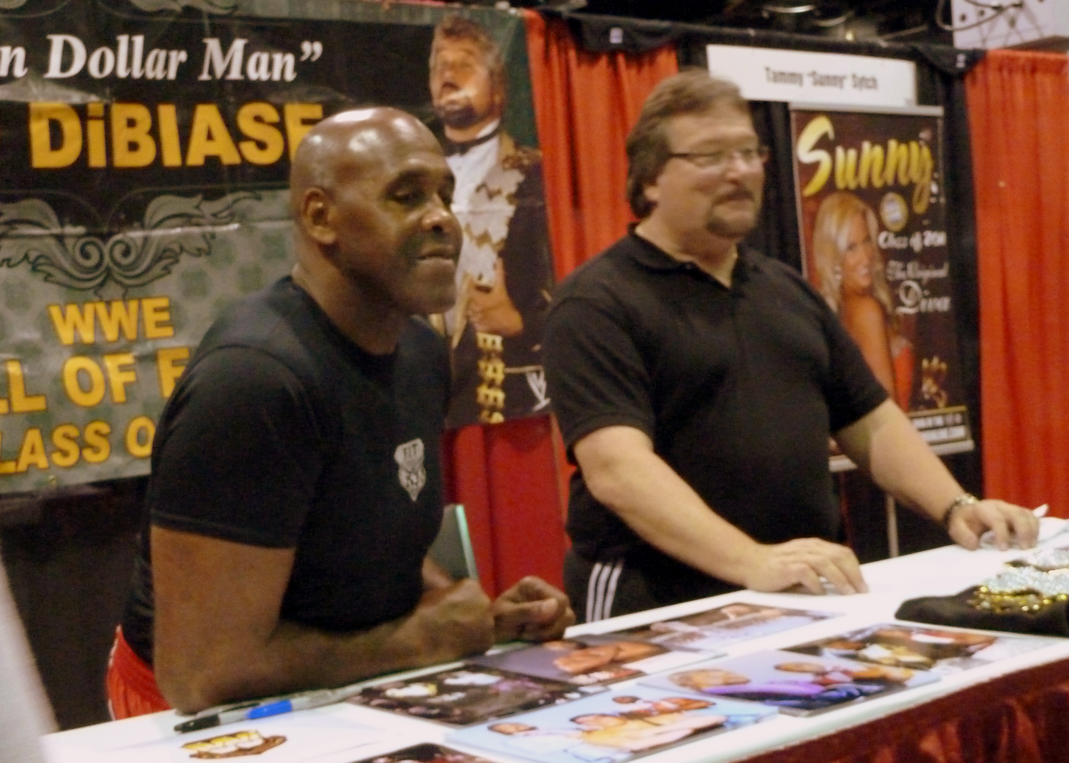 Guest at Wizard World Chicago 2011.